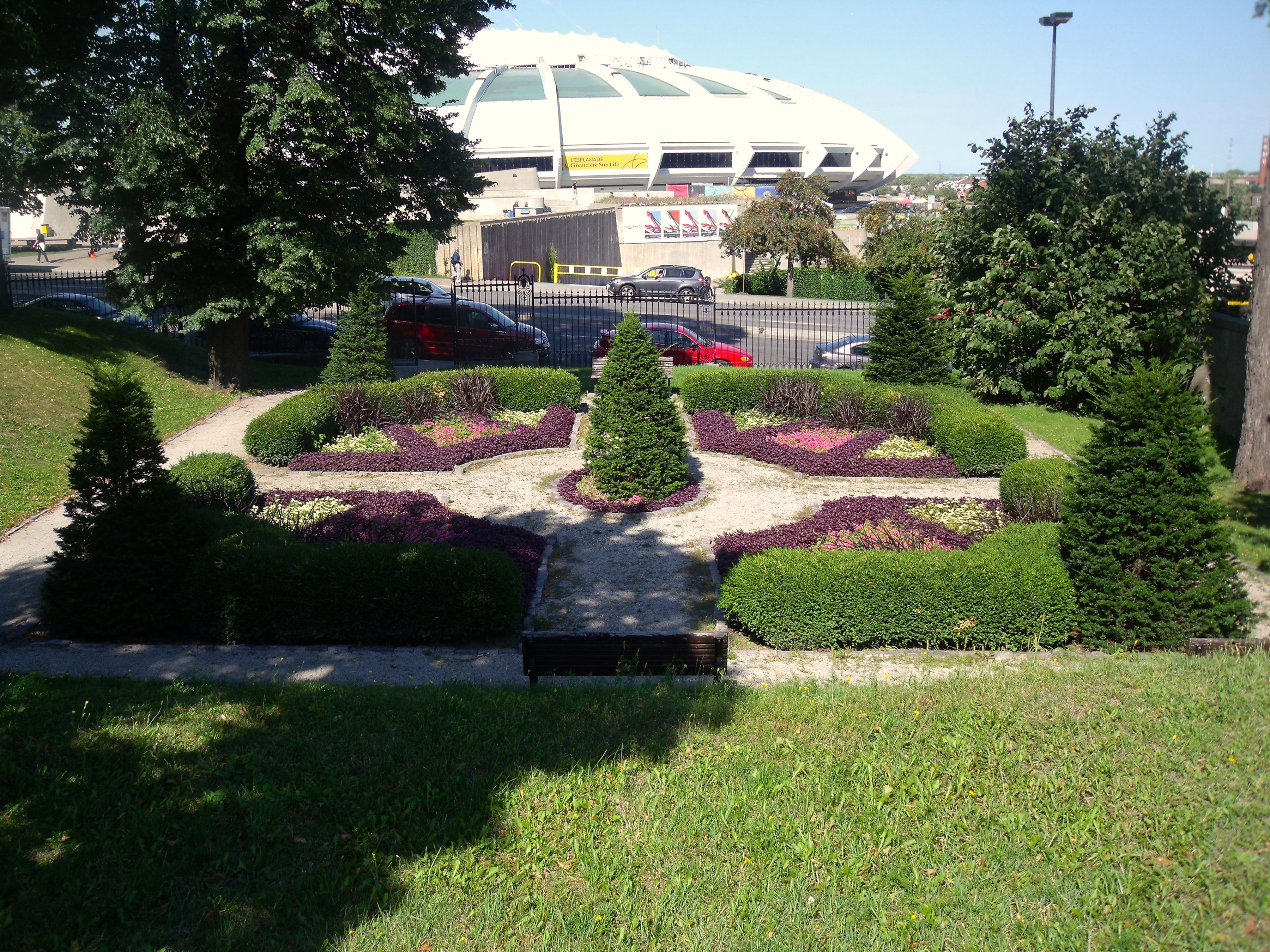 Château Dufresne, 4040 Sherbrooke Street East, Montreal, Quebec, Canada.